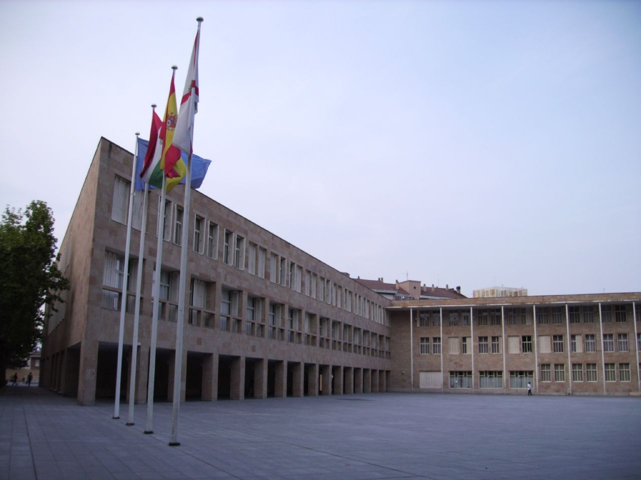 Town Hall of Logroño (La Rioja). The building, situated in the center of the city, was designed by the architect Rafael Moneo (1980).